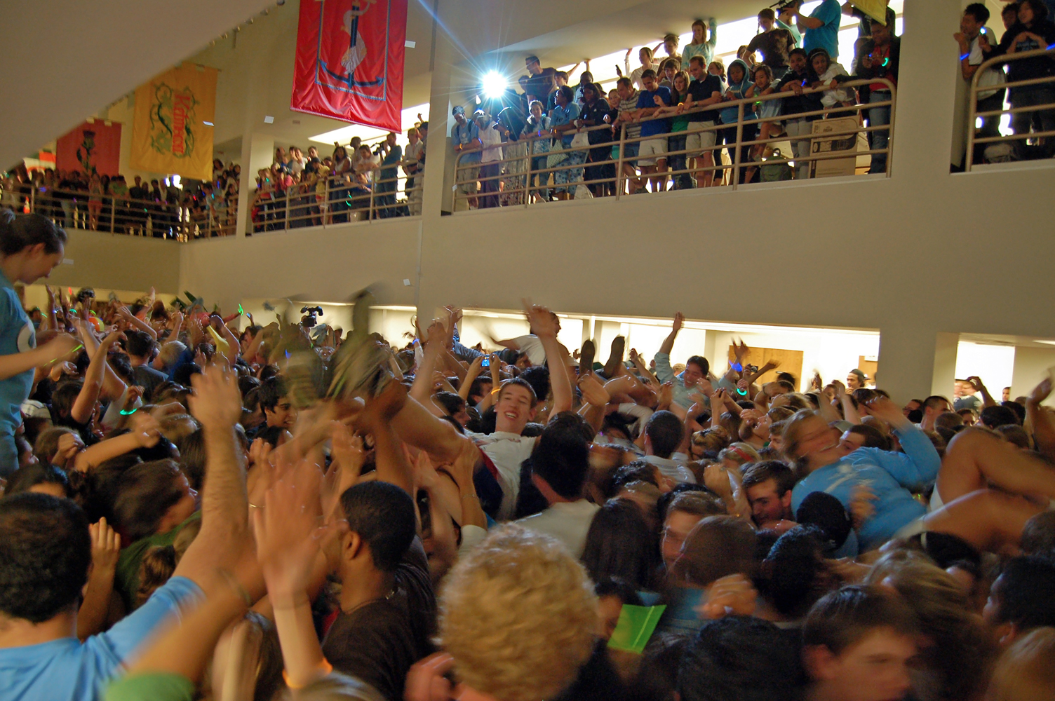 Flash mob at UNC's Davis Library at the end of the 2009 spring semester